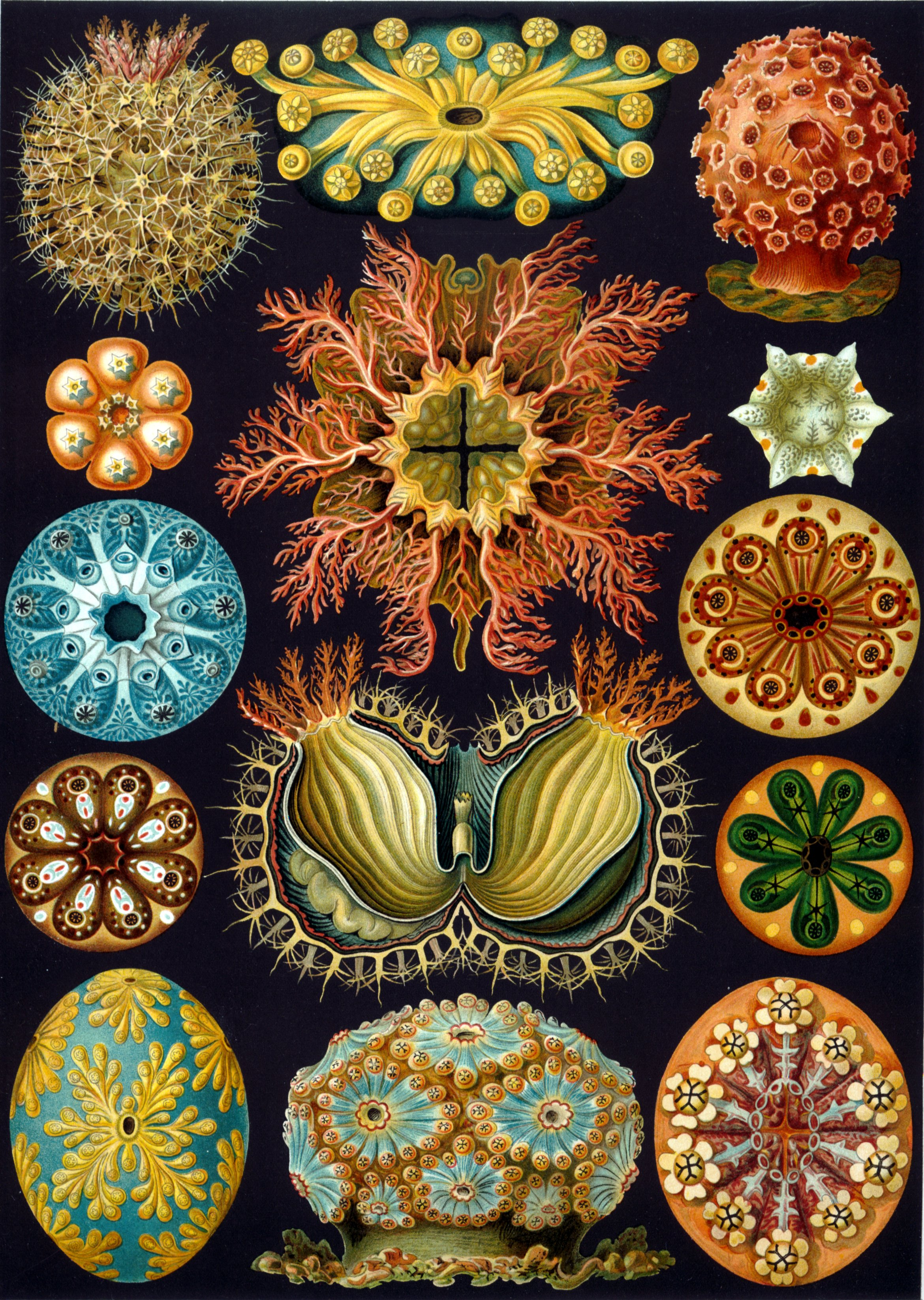 Cynthia melocactus (Haeckel) = Boltenia echinata (Linnaeus, 1767), individual from above Cynthia melocactus (Haeckel) = Boltenia echinata (Linnaeus, 1767), individual from the front Cynthia melocactus (Haeckel) = Boltenia echinata (Linnaeus, 1767), individual in lengthwise section Molgula tubulosa (Forbes) = Eugyra arenosa (Alder & Hancock, 1848), mouth region Fragarium elegans (Giard) = Aplidium elegans (Giard, 1872), colony Polyclinum constellatum (Savigny) = Polyclinum constellatum Savigny, 1816, colony Polyclinum constellatum (Savigny) = Polyclinum constellatum Savigny, 1816, part of colony Synoecum turgens (Phipps) = Synoicum turgens Phipps, 1774, part of colony Botryllus polycyclus (Savigny) = Botryllus schlosseri (Pallas, 1766), part of colony Botryllus rubigo (Giard) = Botryllus schlosseri (Pallas, 1766), part of colony Botryllus Marionis (Giard) = Botryllus schlosseri (Pallas, 1766), part of colony Botryllus helleborus (Giard) = Botryllus schlosseri (Pallas, 1766), part of colony Polycyclus cyaneus (Drasche) = Botryllus schlosseri (Pallas, 1766), colony Botrylloides purpureus (Drasche) = Botrylloides leachii (Savigny, 1816), part of colony